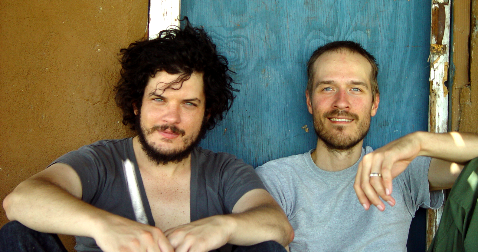 Tom Bailey (left) and Jason Rohrer (right), the musician and developer behind Diamond Trust of London. The game and its supporting assets have been released into the public domain. The project is hosted on SourceForge at (license) This photograph forms part of the rear box art.